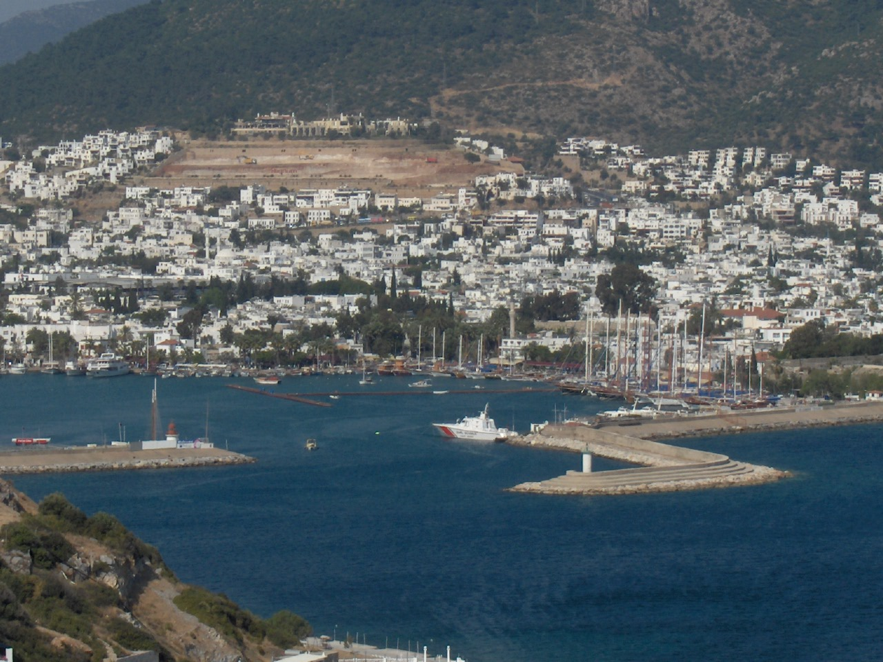 View on the harbour and the city; Bodrum, Turkey